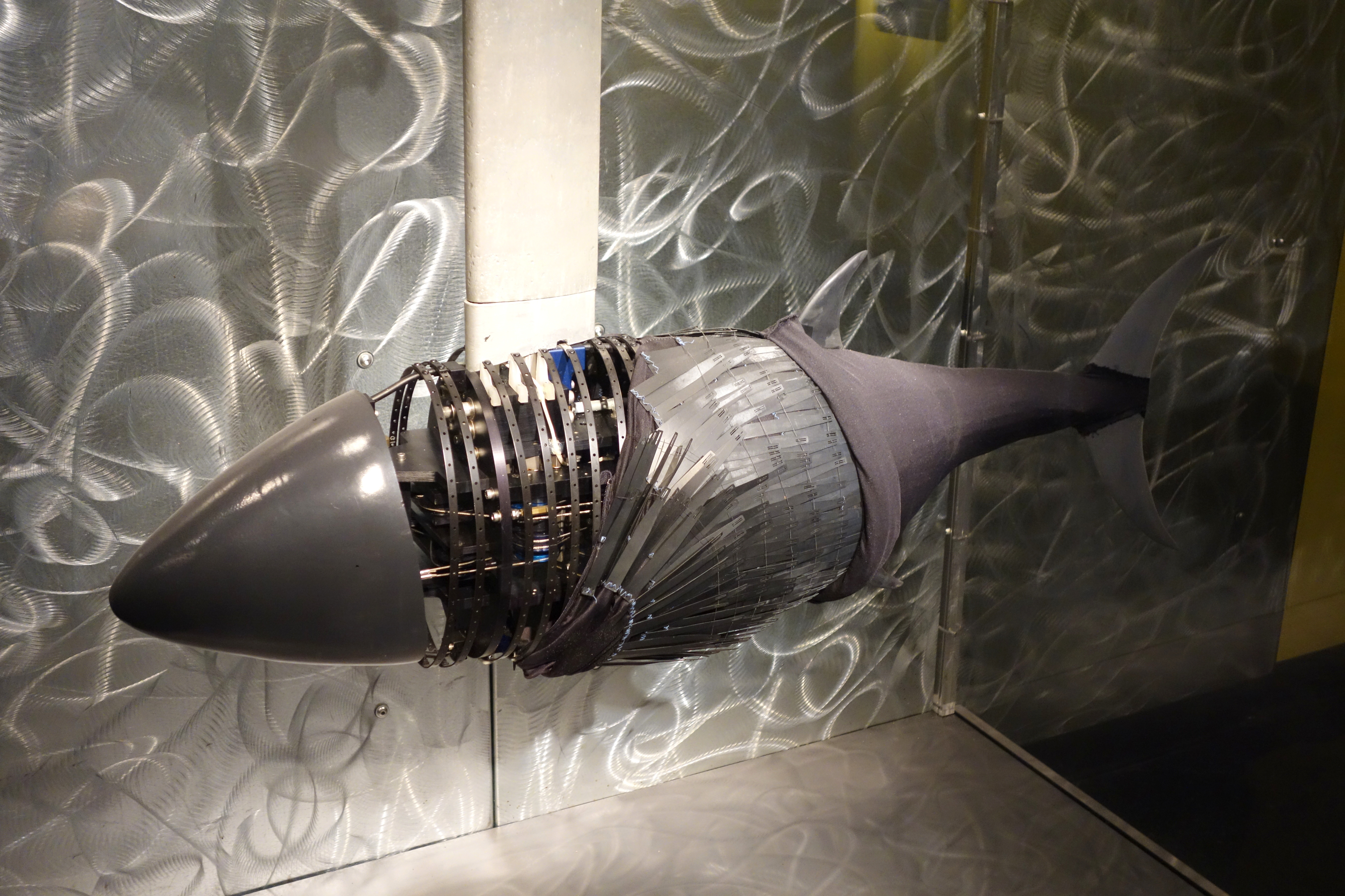 Research robot in the MIT Museum, MIT, Cambridge, Massachusetts, USA.